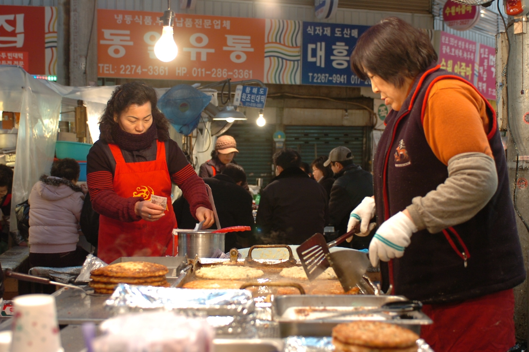 Ajummas (term referring to married women) fry bindaetteok (Korean mung bean pancakes) for customers at Gwangjang Market, Seoul, South Korea.